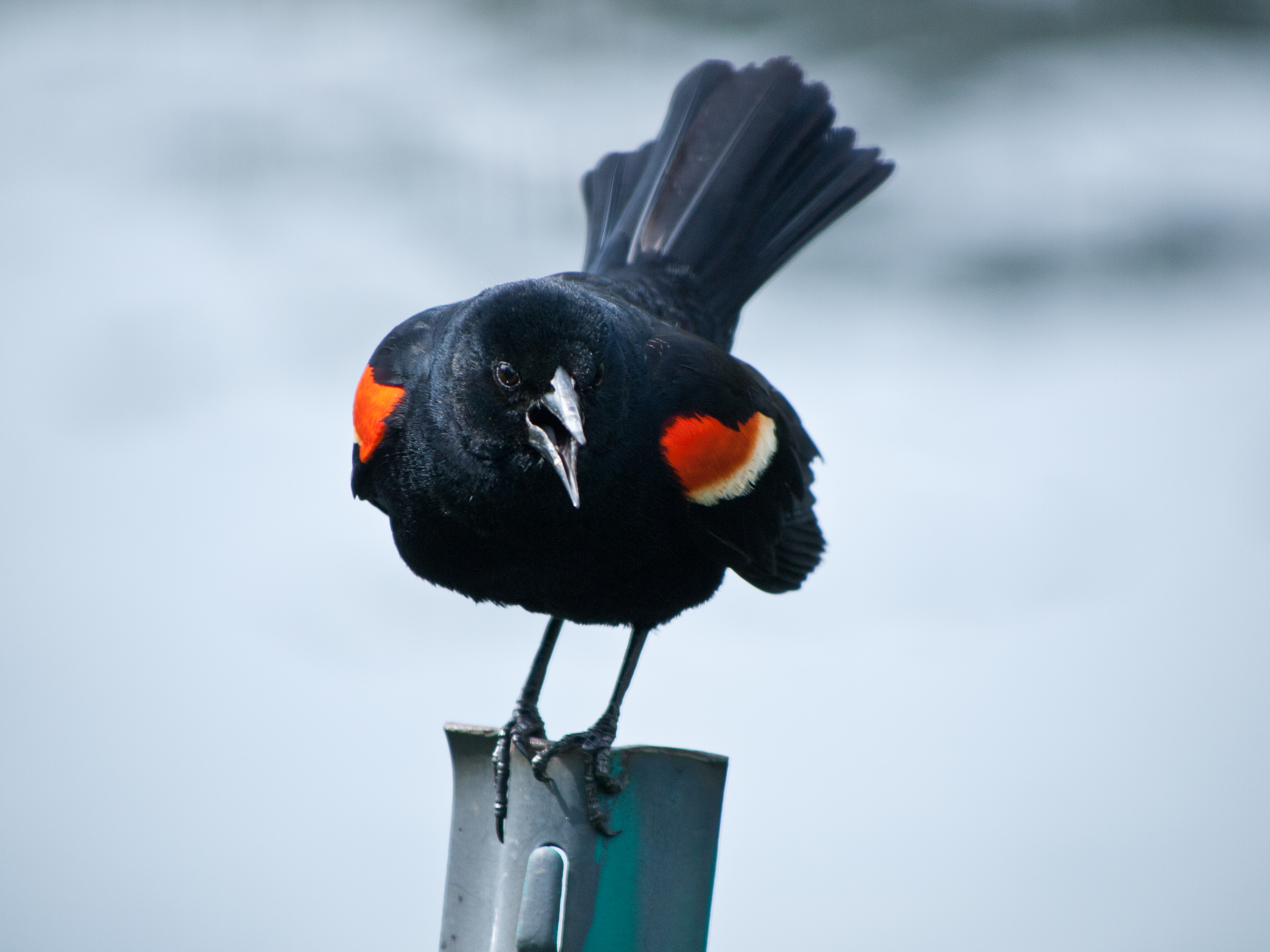 A male Red-winged Blackbird in Chicago, Illinois, USA.